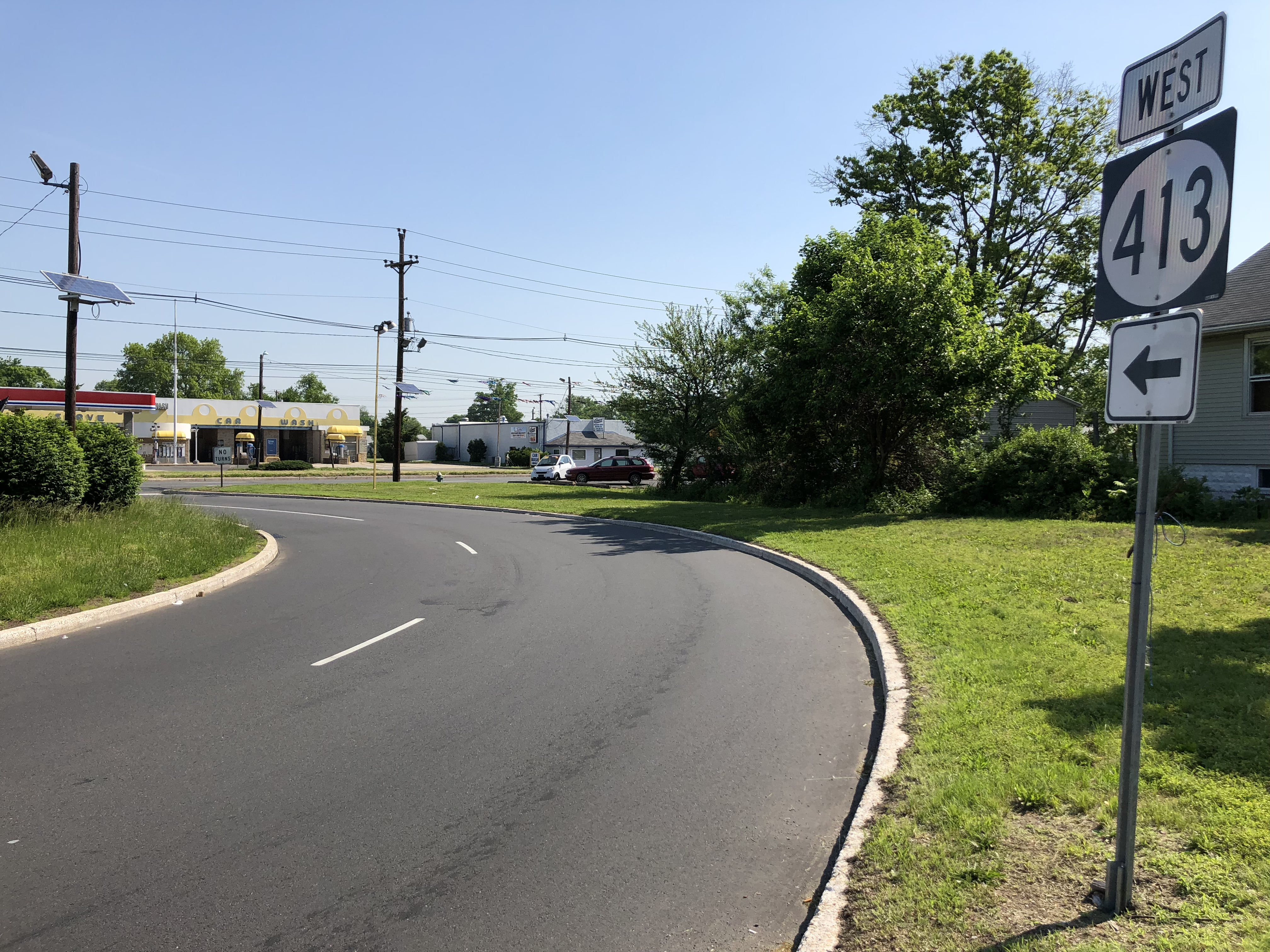 View west along New Jersey State Route 413 (Keim Boulevard) at U.S. Route 130 and Burlington County Route 543 in Burlington, Burlington County, New Jersey